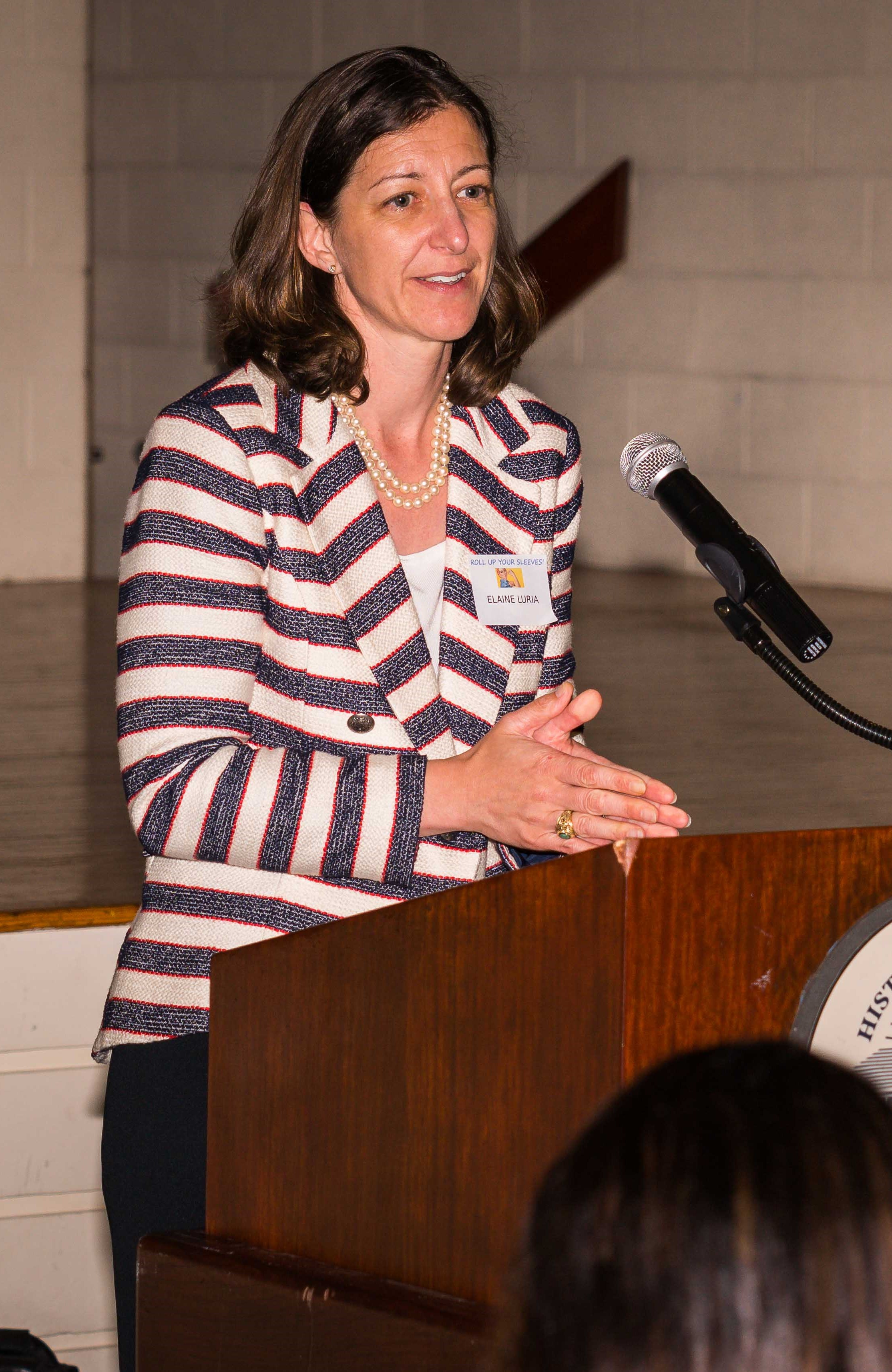 Elaine Luria, Democratic candidate for Virginia's Second Congressional District speaks at a June 2018 rally in Williamsburg. Ms. Luria is a small business owner and a retired U.S. Navy officer.